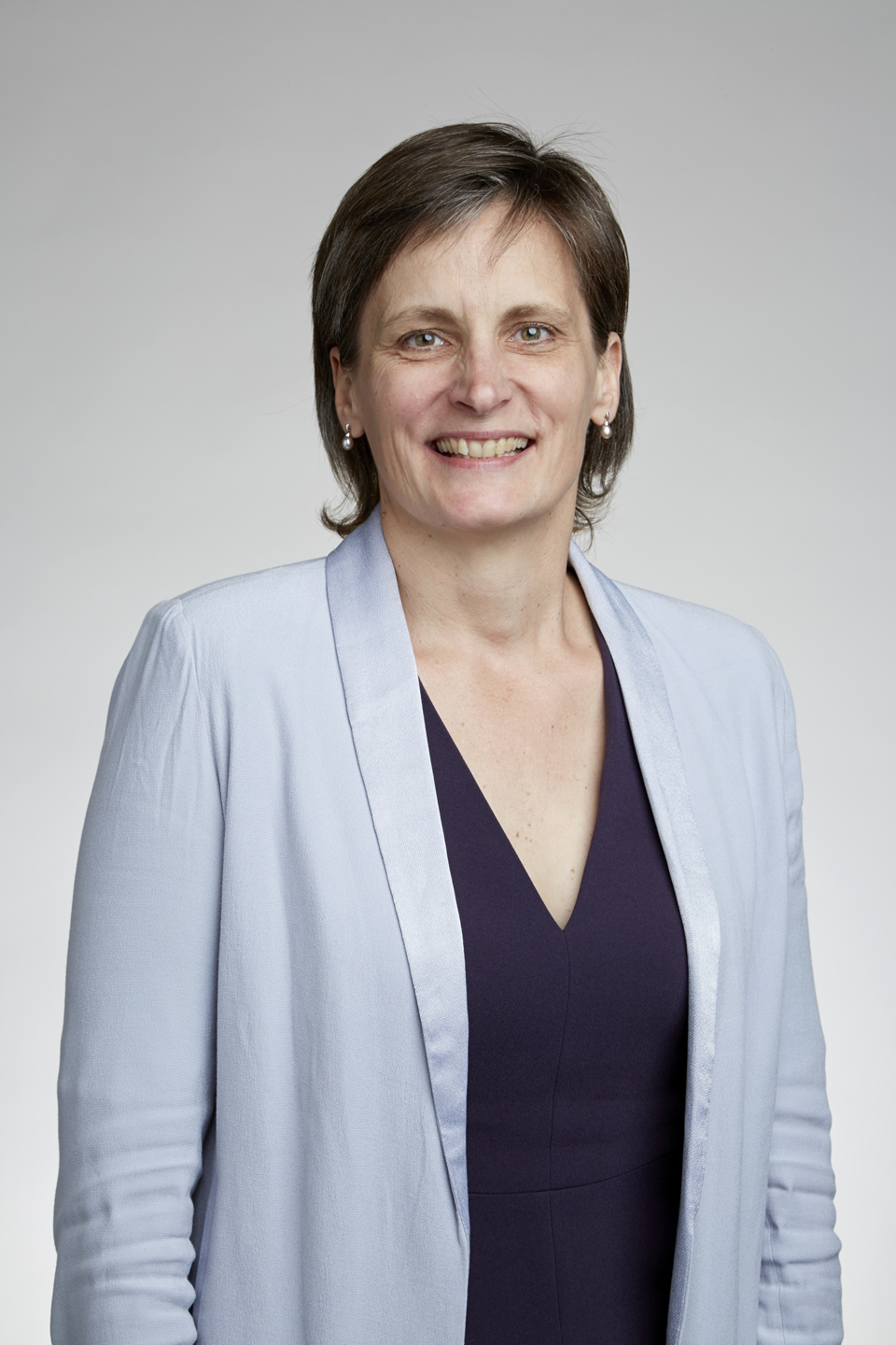 Corinne Le Quéré is a Franco-Canadian scientist. She is professor of climate change science and policy at the University of East Anglia and director of Tyndall Centre for Climate Change Research. Attribution: The Royal Society